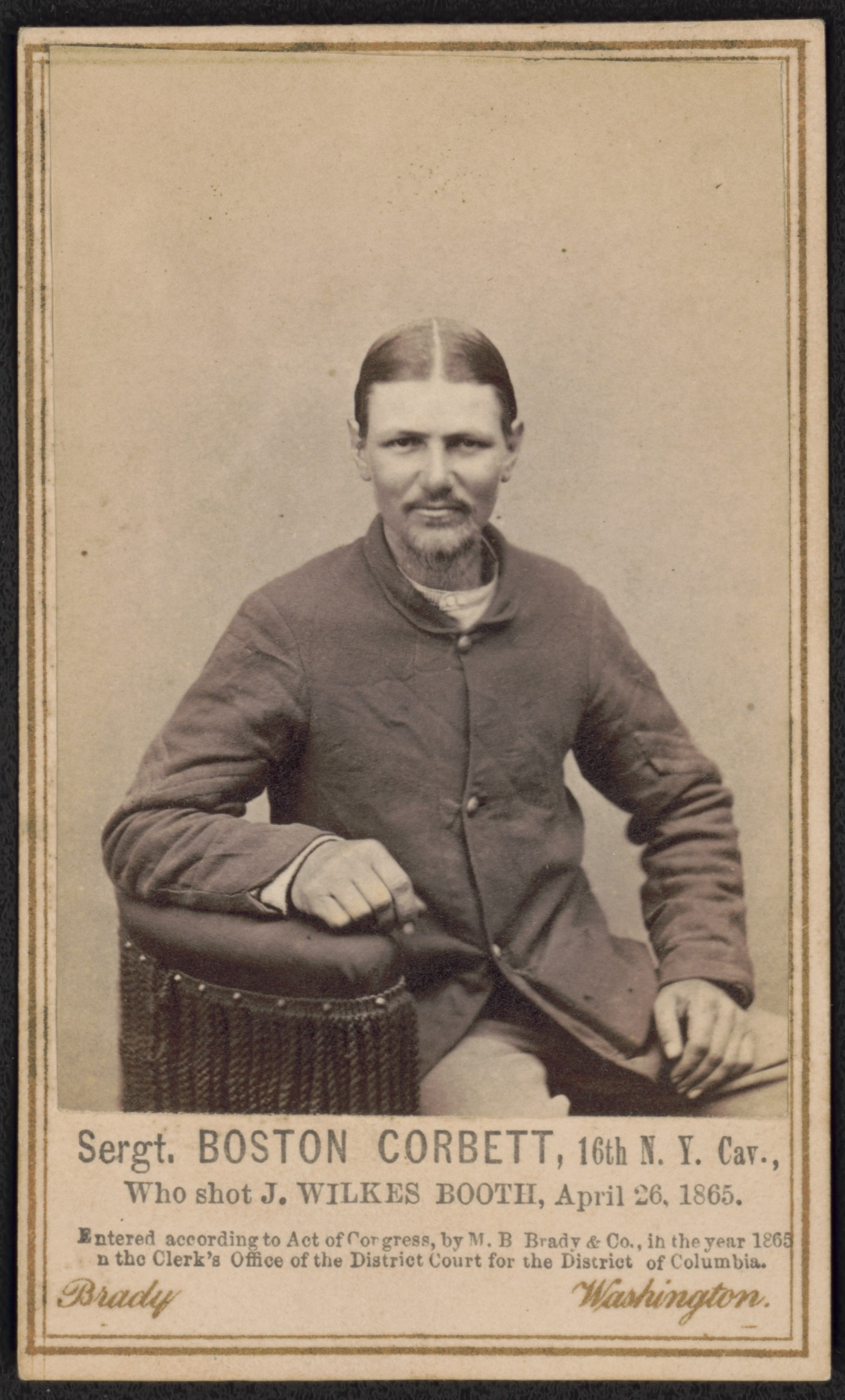 Title: Sergt. Boston Corbett, 16th N.Y. Cav., who shot J. Wilkes Booth, April 26, 1865 / Brady, Washington. Abstract/medium: 1 photograph : albumen print on card mount ; mount 11 x 6 cm (carte de visite format)